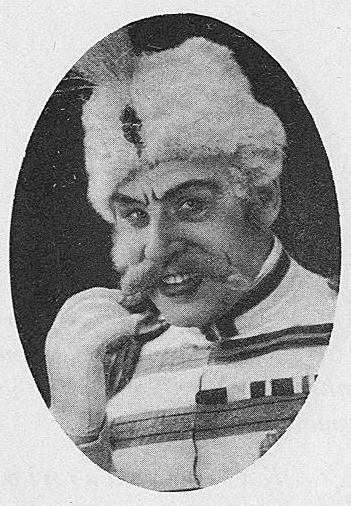 Finnish theatre personality, photographed in early 1930s.